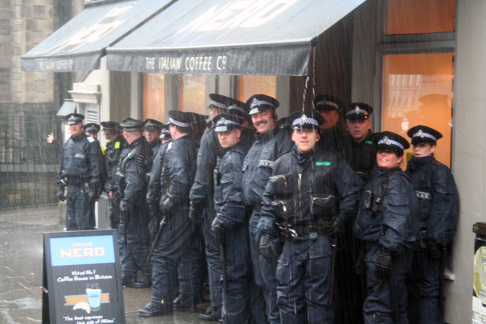 Police hide under a cafe awning during a sudden downpour at the Edinburgh G8 protests.